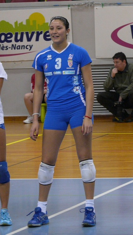 Argentine volleyball player Yamila Nizetich